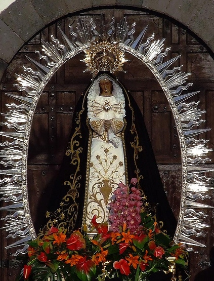 Virgen de los Dolores, Patrona de Lanzarote